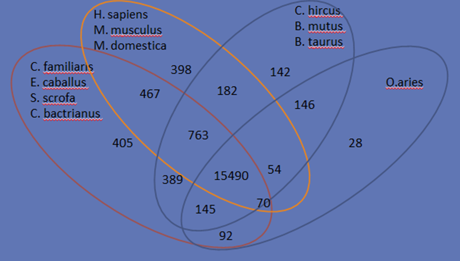 Venn diagram families of orthologs of genes